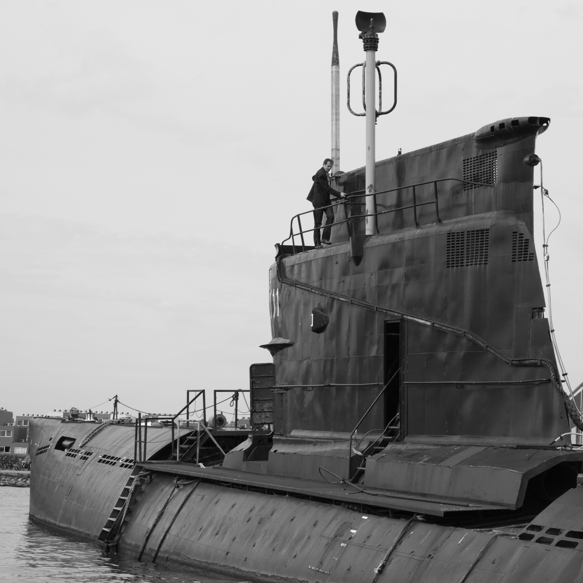 Entering the submarine